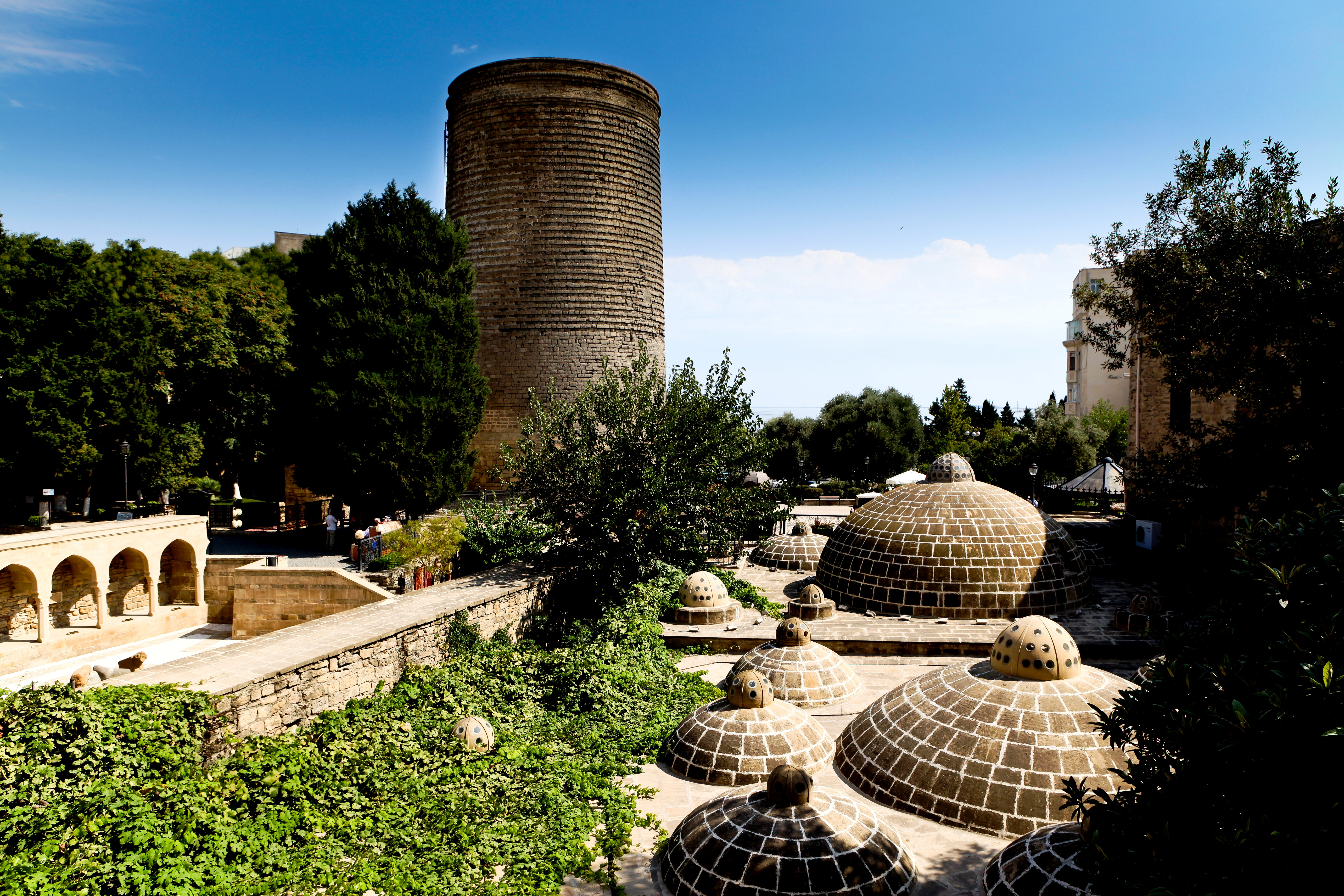 İchery sheher